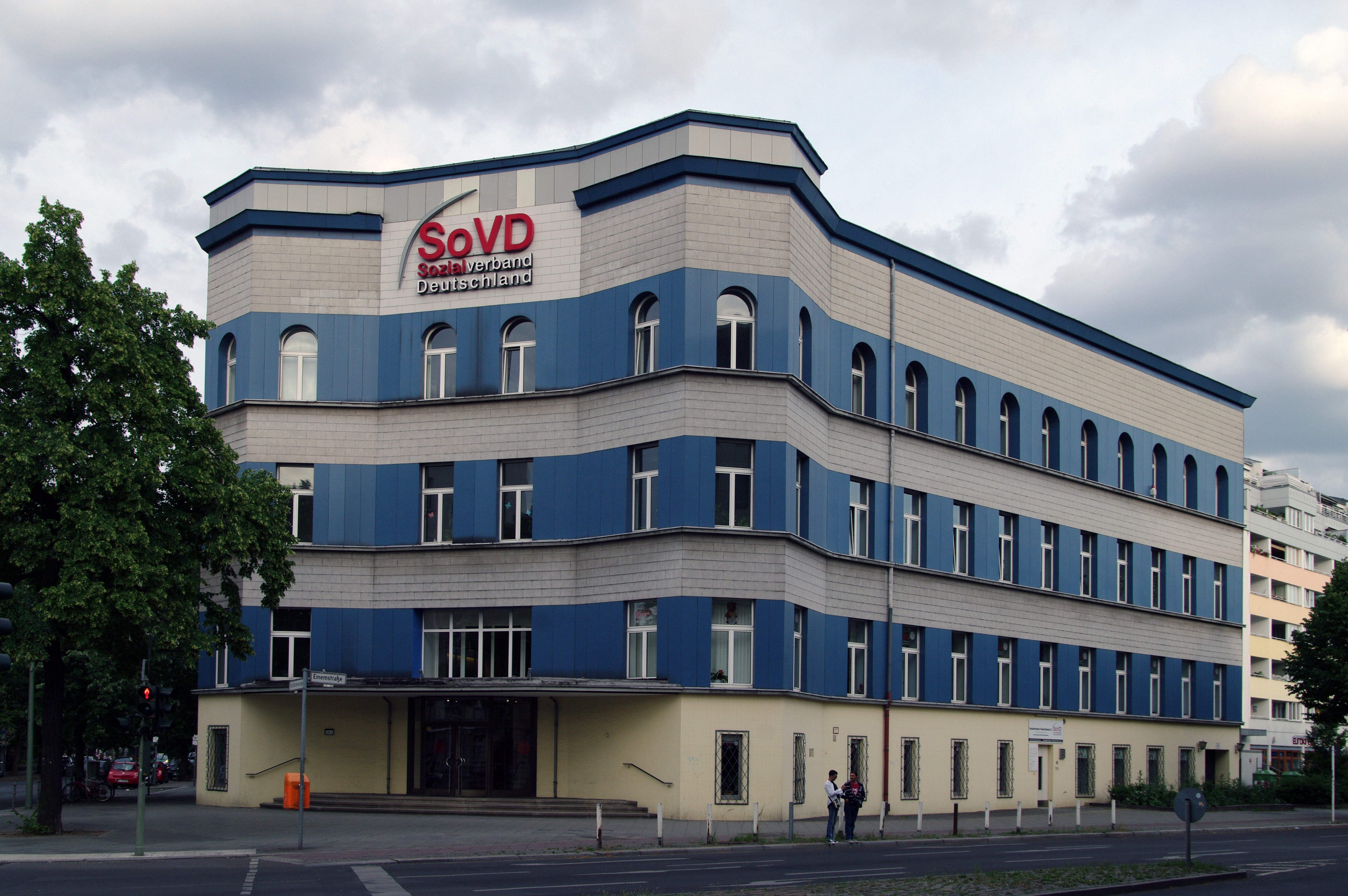 Building of the Sozialverband Deutschland welfare organisation, district Berlin.